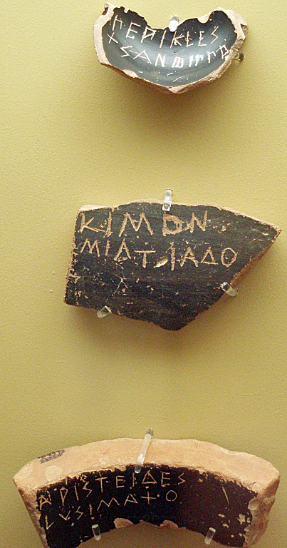 Ostraca (pieces of broken pottery as voting tokens) bearing the names of Pericles, Cimon, and Aristides (top to bottom). Ancient Agora Museum in Athens.